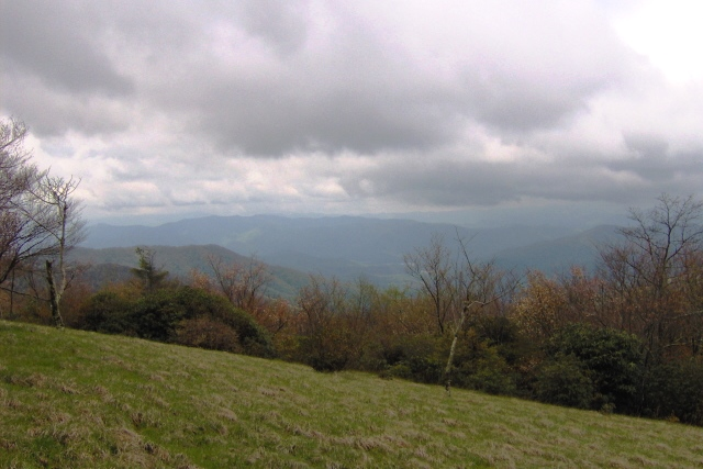 Looking southeast from Spence Field (el. 4,950/1,508 meters) in the Great Smoky Mountains. The Little Tennessee River watershed is below.